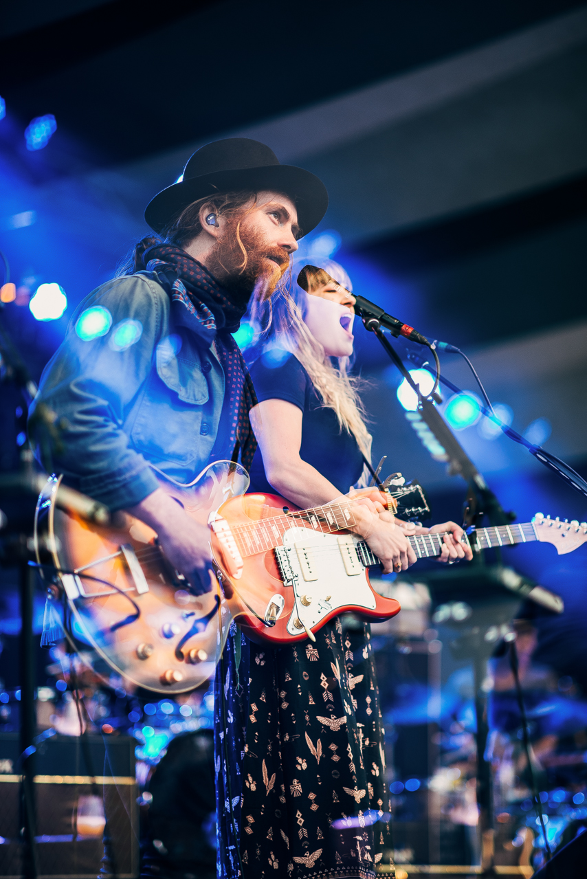 Angus and Julia Stone performing at the Edmonton Folk Festival 2015